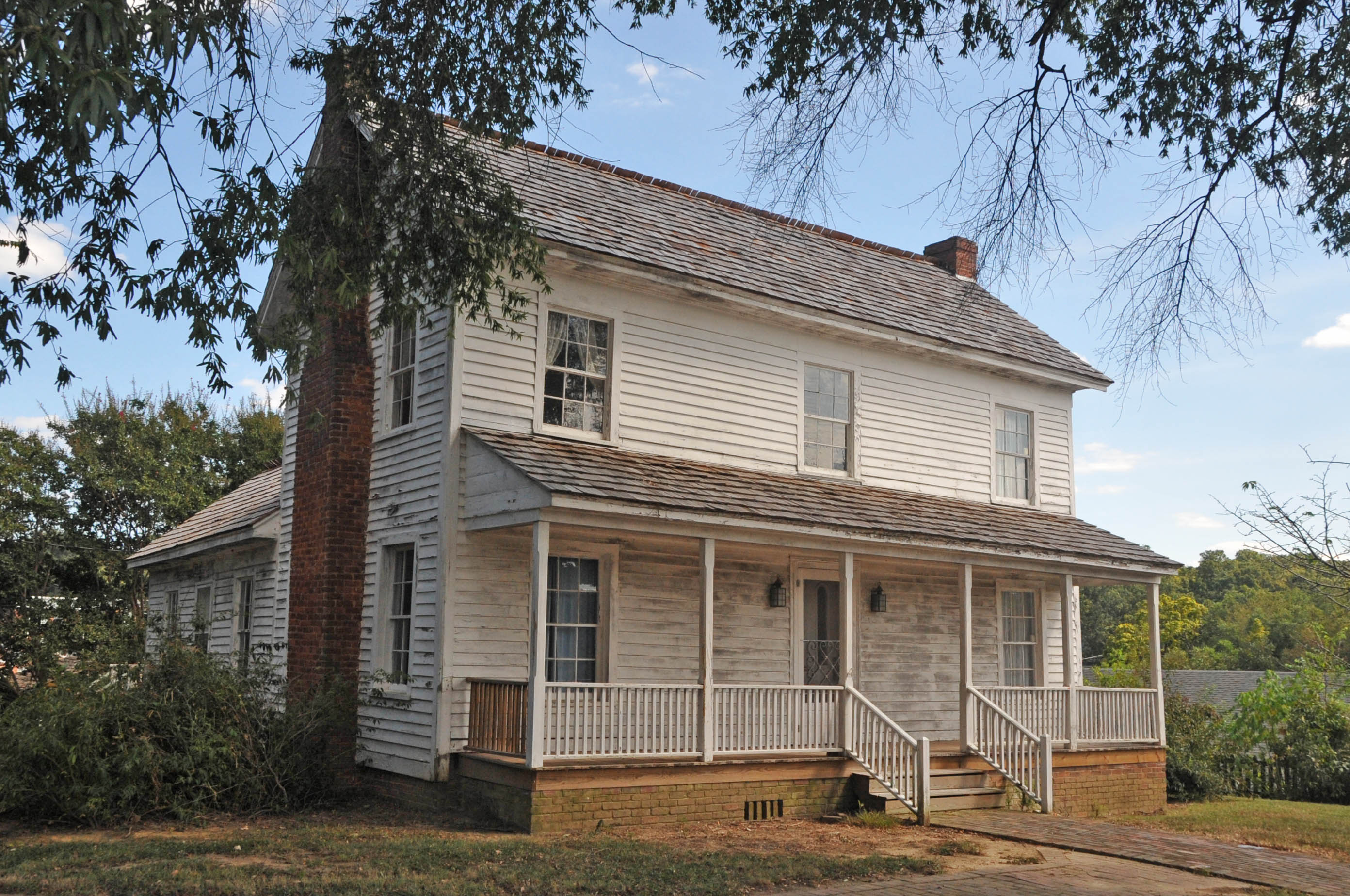 SNUGGS HOUSE; THE TWO HOUSES ARE LOCATED ON THE SAME LOT; THE SNUGGS HOUSE IS THE SECOND OLDEST IN ALBEMARLE